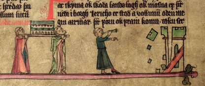 The walls of Jericho crumble. From the 14th century Icelandic manuscript AM 227 fol. 71v. in the care of the Árni Magnússon Institute in Iceland.